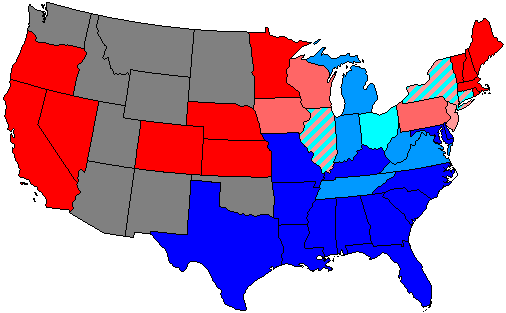 Summary of party control of U.S. house seats in the 49th United States Congress following election. Stripes indicate a tie between two or more parties. Legend: 80.1-100% Democratic seat majority 60.1-80% Democratic seat majority 60% or less Democratic seat plurality 60% or less Republican seat plurality 60.1-80% Republican seat majority 80.1-100% Republican seat majority